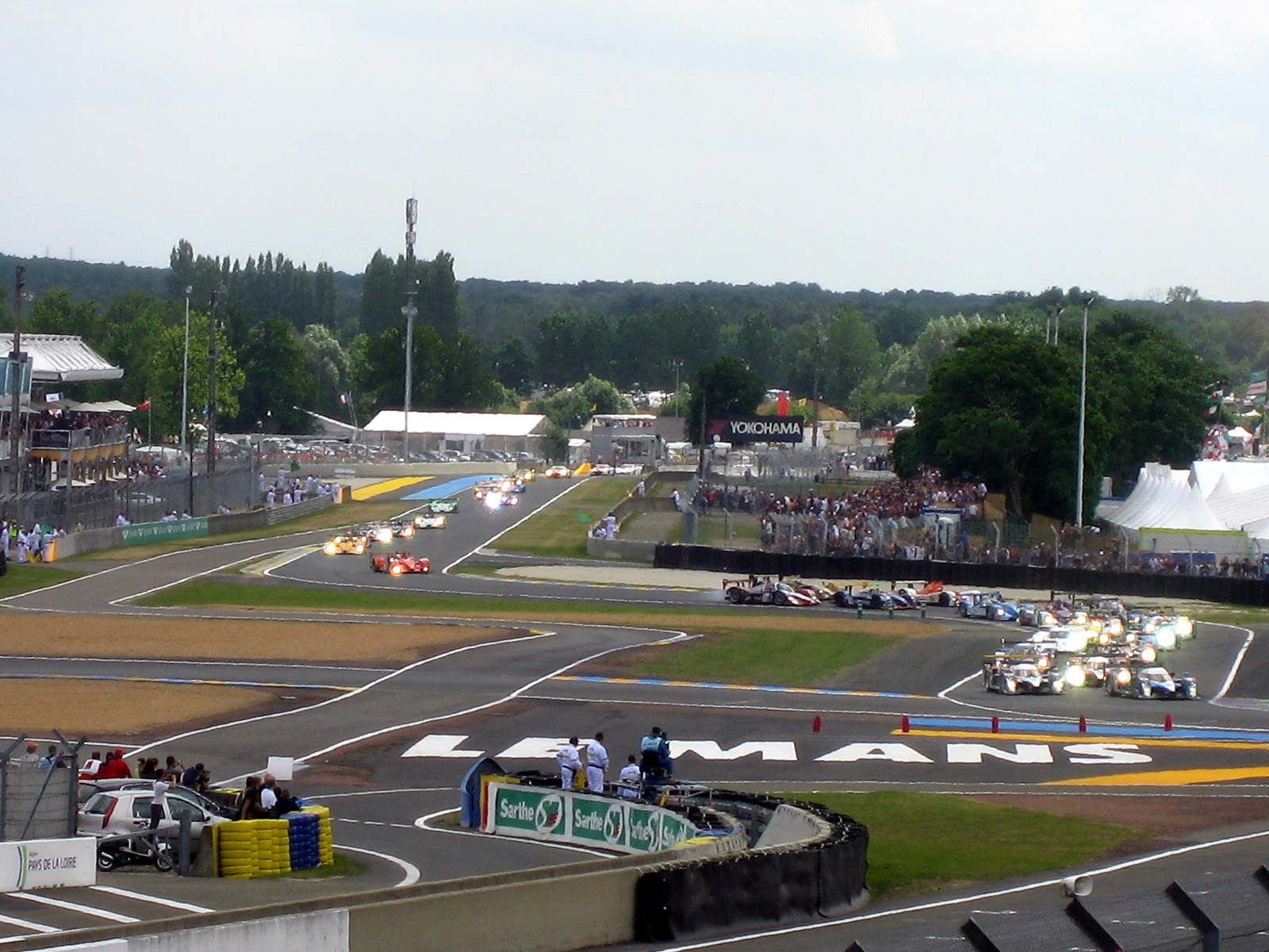 The rolling start of 24 Hours of Le Mans 2008